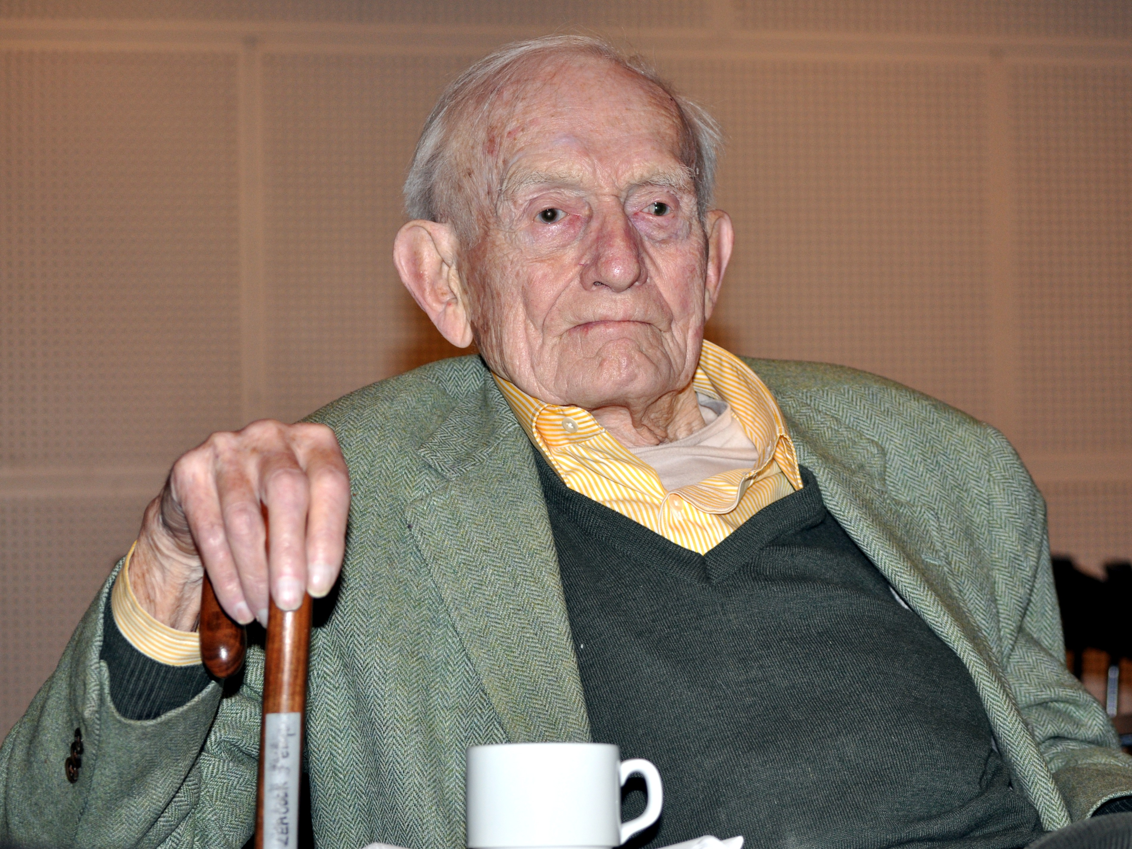 Richard Leacock, British documentary film director, at DocPoint – Helsinki Documentary Film Festival in January 2009.